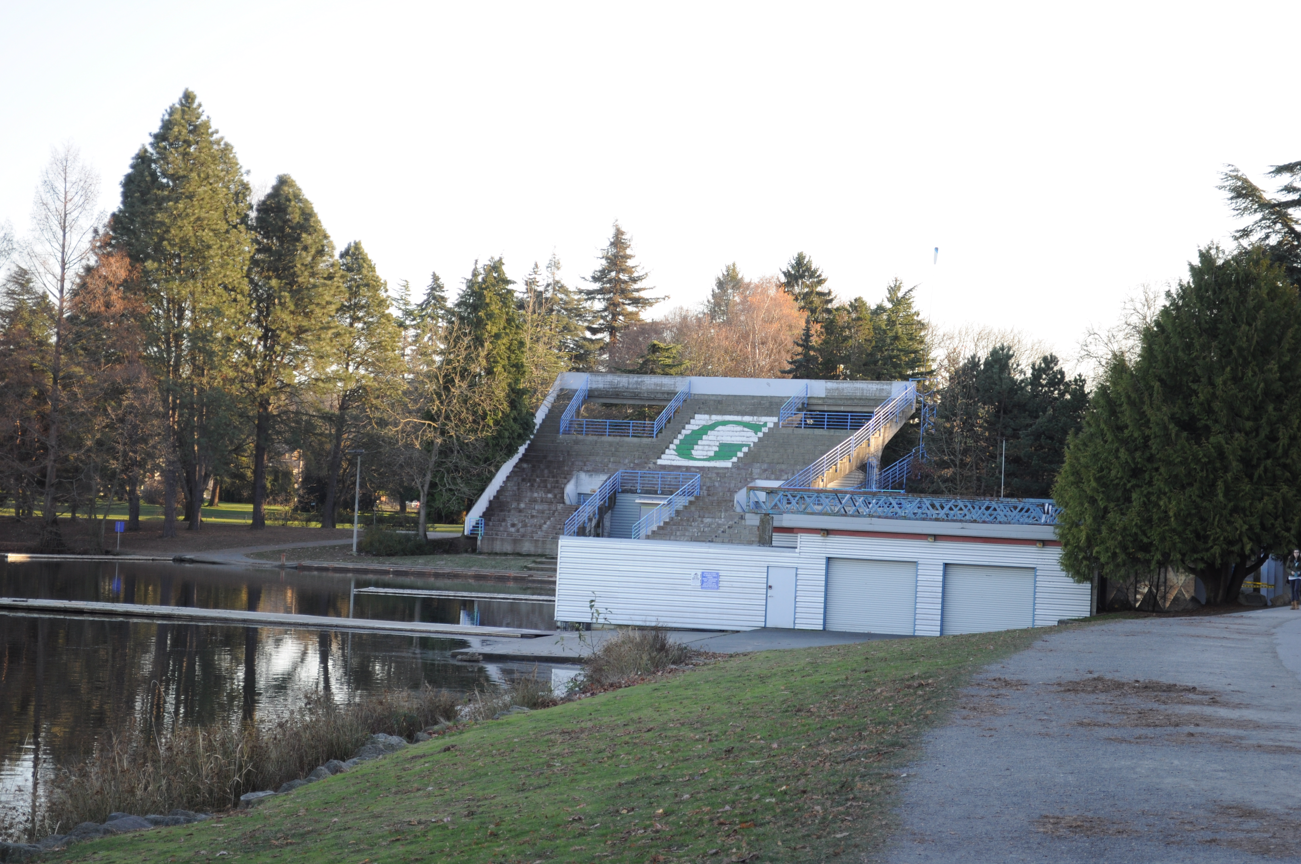 The former Green Lake Aqua Theater, Green Lake Park, Seattle, Washington.